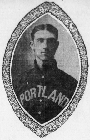 Professional baseball player Larry McLean